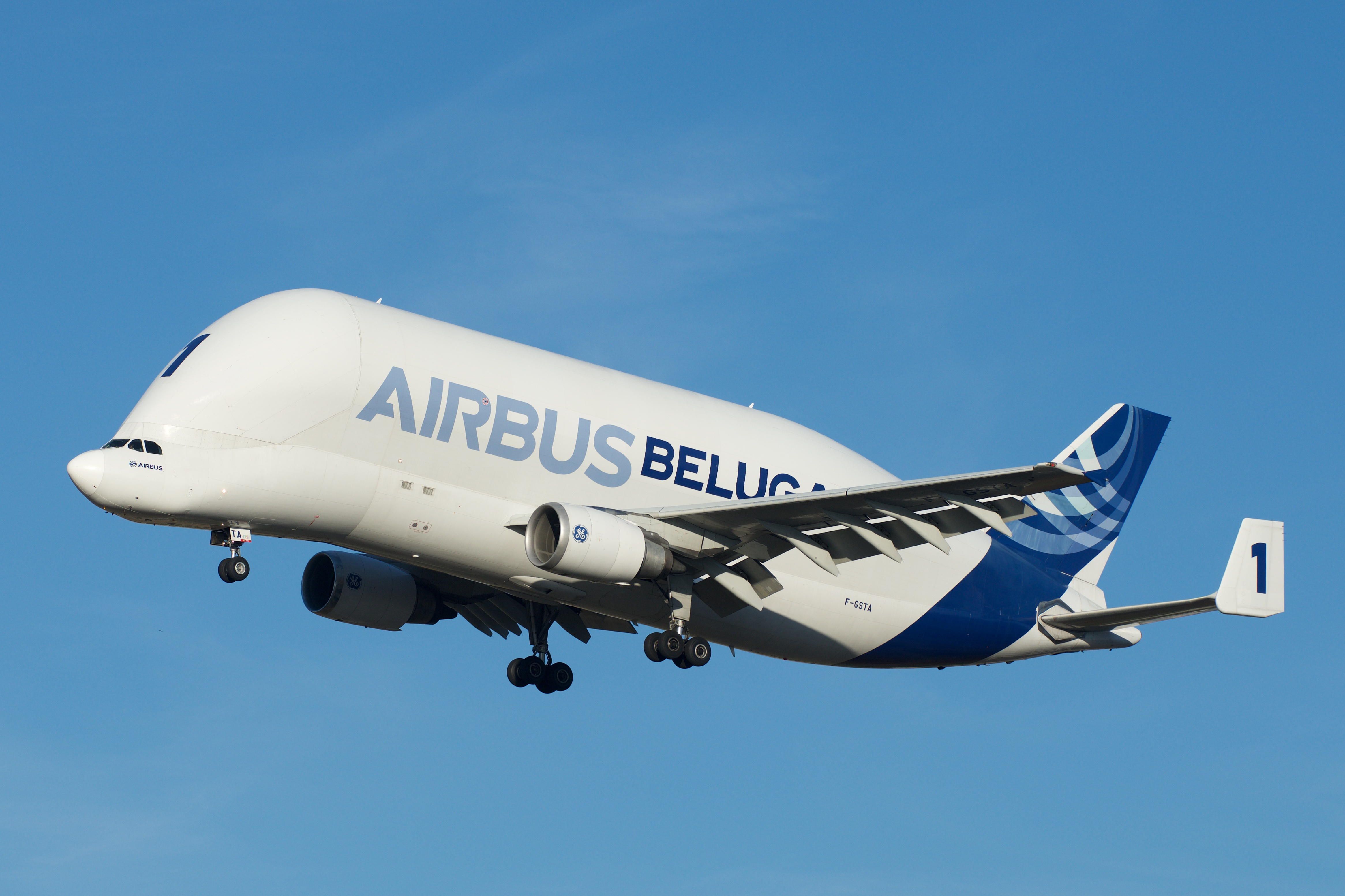 Airbus Beluga arriving at Toulouse–Blagnac Airport [TLS].